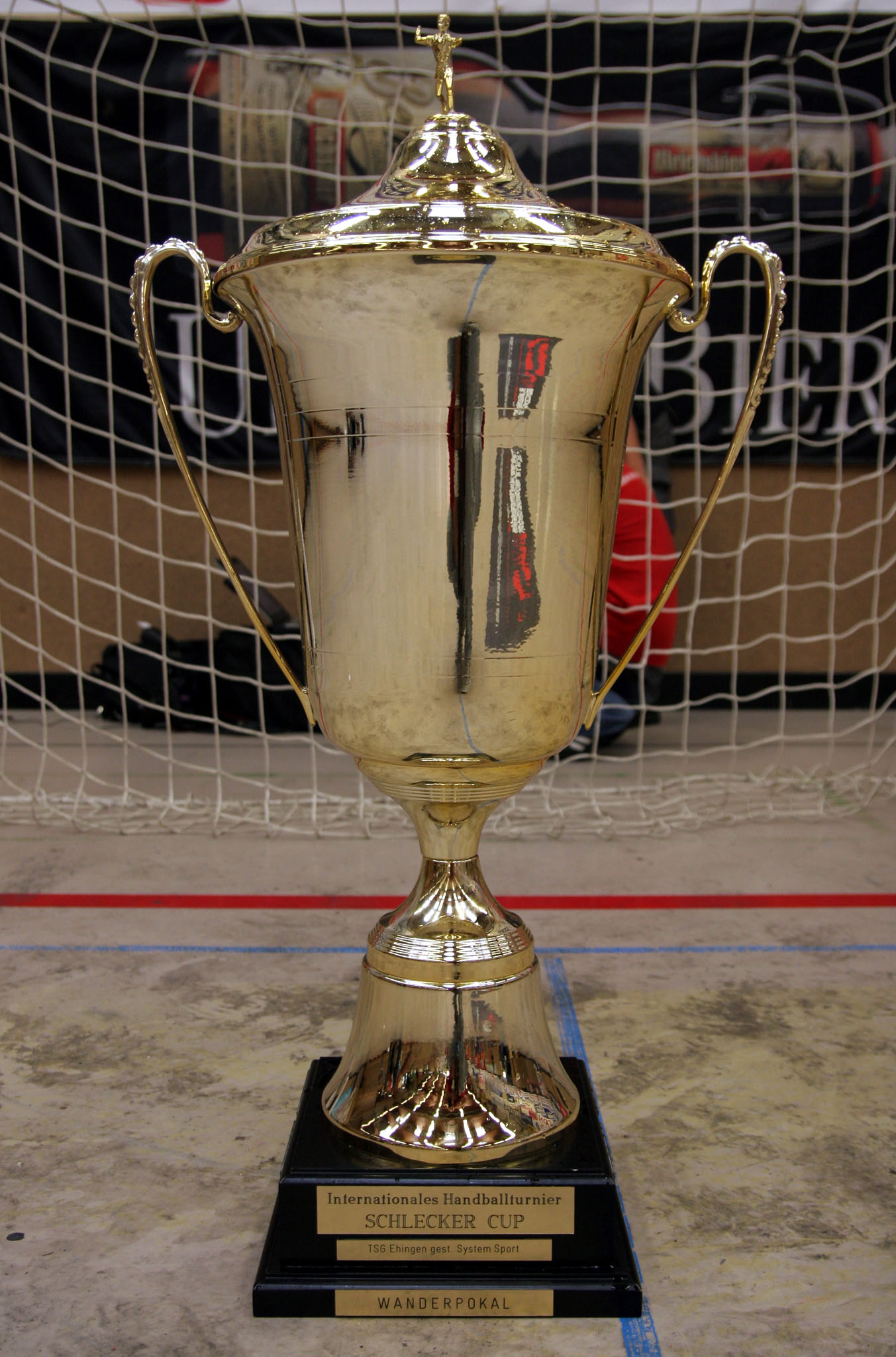 Der Schlecker Cup, on August 30th, 2008 in Ehingen (Germany)